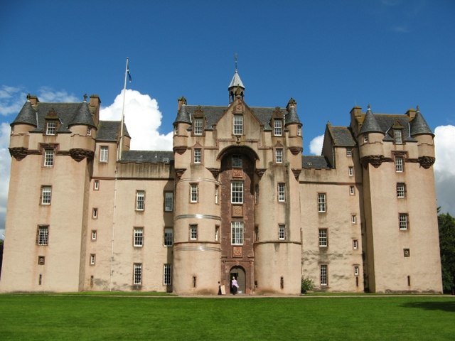 Fyvie Castle in the village of Fyvie, near Turriff in Aberdeenshire, Scotland.